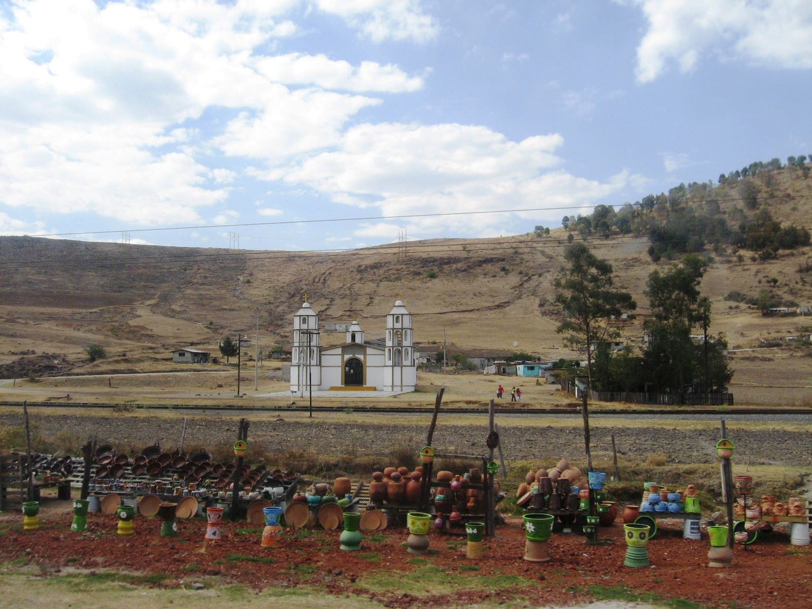 Church of the community of Bassoco de Hidalgo in the municipality of El Oro, Mexico State, Mexico